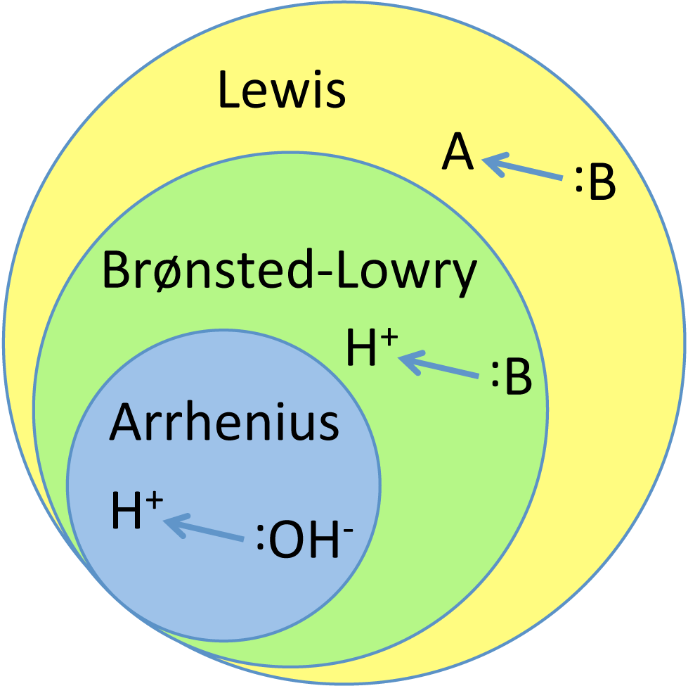 graphic showing the relationship between three acid-base theories